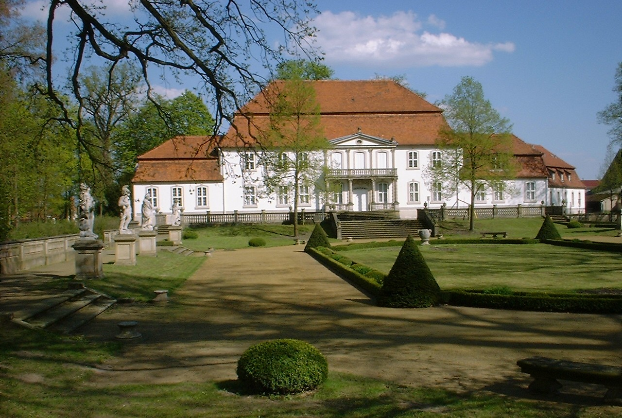 Palace in Wiepersdorf (municipality Niederer Fläming) in Brandenburg, Germany